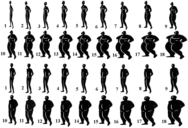 Figure 1. Body image rating scale for men and women. Images 1 through 5 represent people who are underweight, images 6 through 9 represent people of normal weight, images 10 through 13 represent overweight people, and images 14 through18 represent obese people (11). Ettarh R, Van de Vijver S, Oti S, Kyobutungi C. Overweight, Obesity, and Perception of Body Image Among Slum Residents in Nairobi, Kenya, 2008–2009. Prev Chronic Dis 2013;10:130198. Web Site Icon. Converted to PNG by the uploader.